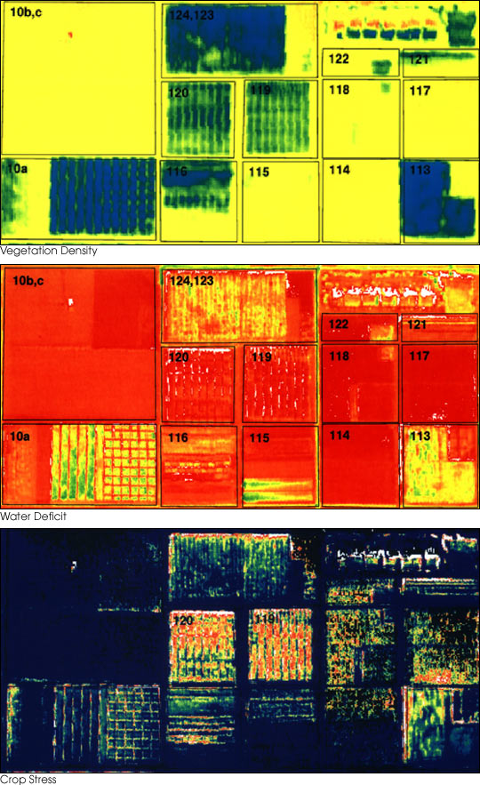 These three false-color images demonstrate some of the applications of remote sensing in precision farming. The goal of precision farming is to improve farmers’ profits and harvest yields while reducing the negative impacts of farming on the environment that come from over-application of chemicals. The images were acquired by the Daedalus sensor aboard a NASA aircraft flying over the Maricopa Agricultural Center in Arizona. The top image (vegetation density) shows the color variations determined by crop density (also referred to as "Normalized Difference Vegetation Index", or NDVI), where dark blues and greens indicate lush vegetation and reds show areas of bare soil. The middle image (water deficit) is a map of water deficit, derived from the Daedalus’ reflectance and temperature measurements. Greens and blues indicate wet soil and reds are dry soil. The bottom image (crop stress) shows where crops are under serious stress, as is particularly the case in Fields 120 and 119 (indicated by red and yellow pixels). These fields were due to be irrigated the following day. See also Precision Farming (Feature Article on ).